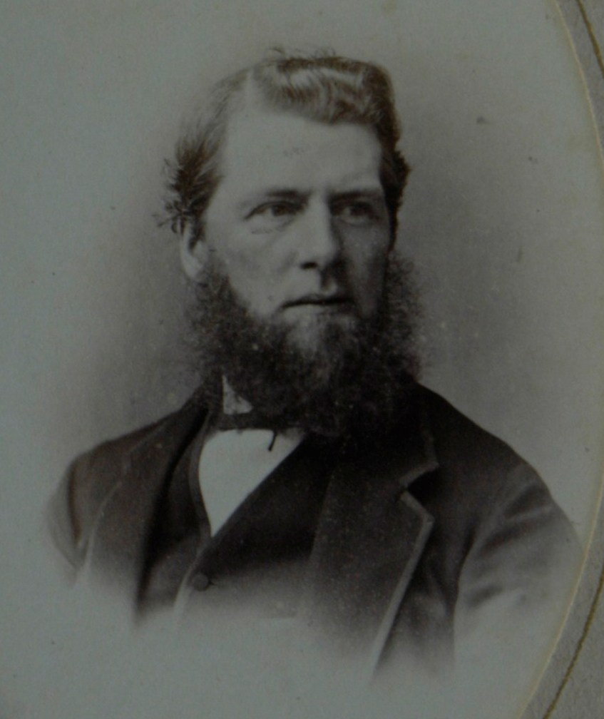 crop of photo (by me, R. de SalisRodolph (talk) 23:37, 2 July 2014 (UTC)) of photo J. F. W. F. de Salis, 6th Count de Salis (1825 – 1871), 1869. thumb|left|J. F. W. F. de Salis, 6th Count de Salis (1825 – 1871), 1869.